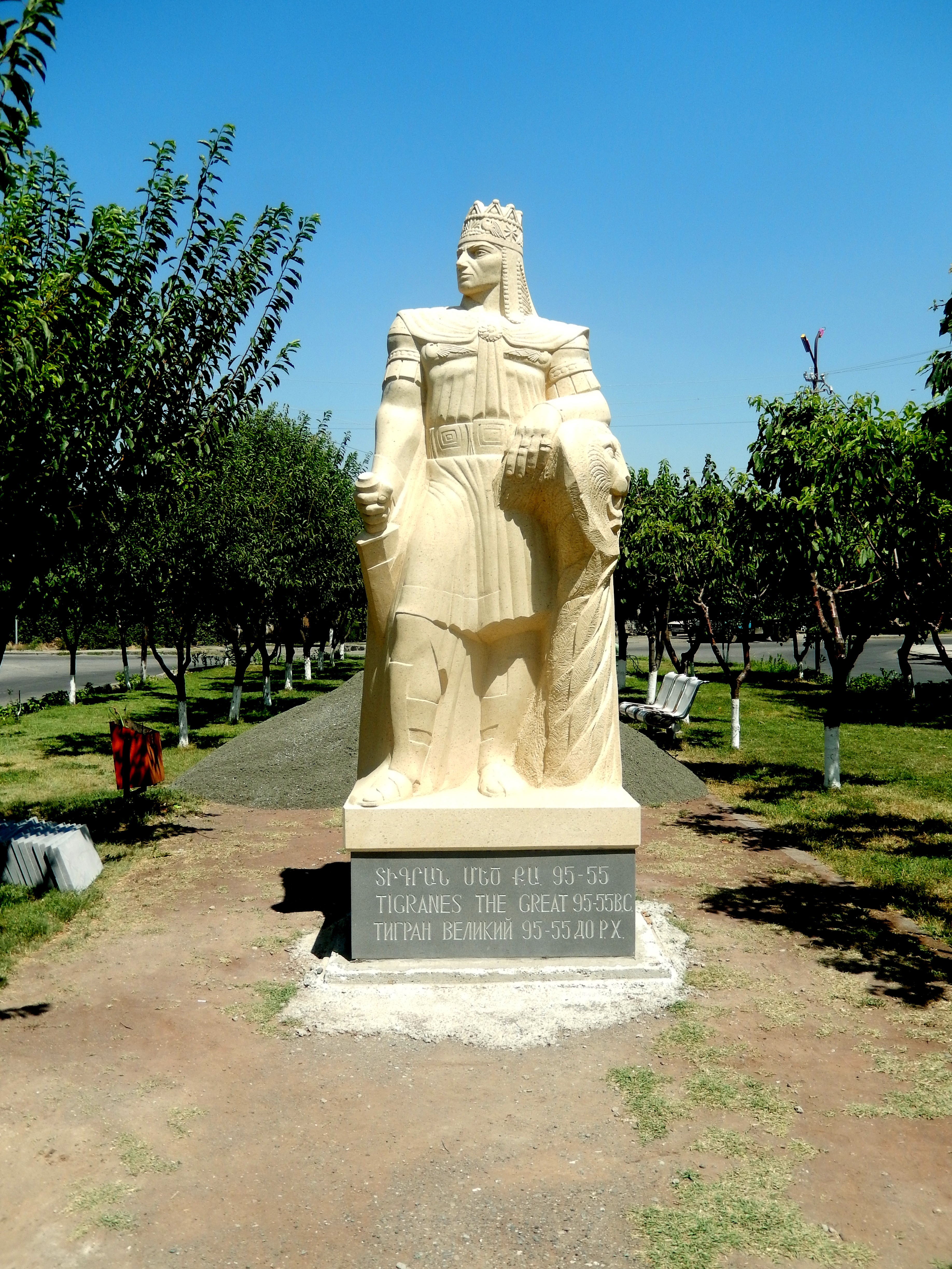 Tigranes the Great statue in Vagharshapat